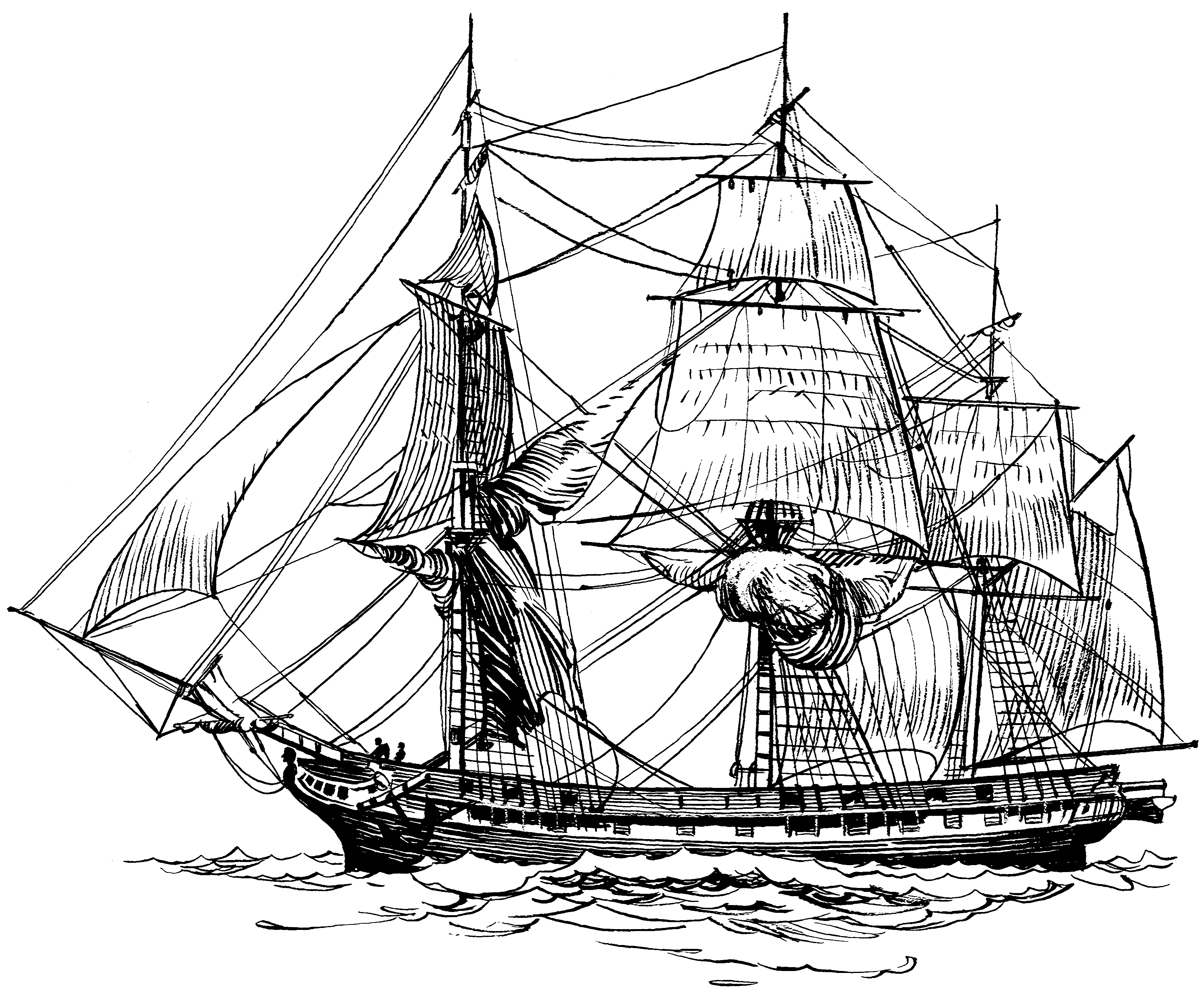 Line art drawing of a frigate.